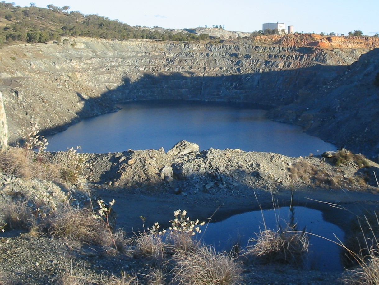 The disused Woodsreef asbestos mine, Barraba, NSW